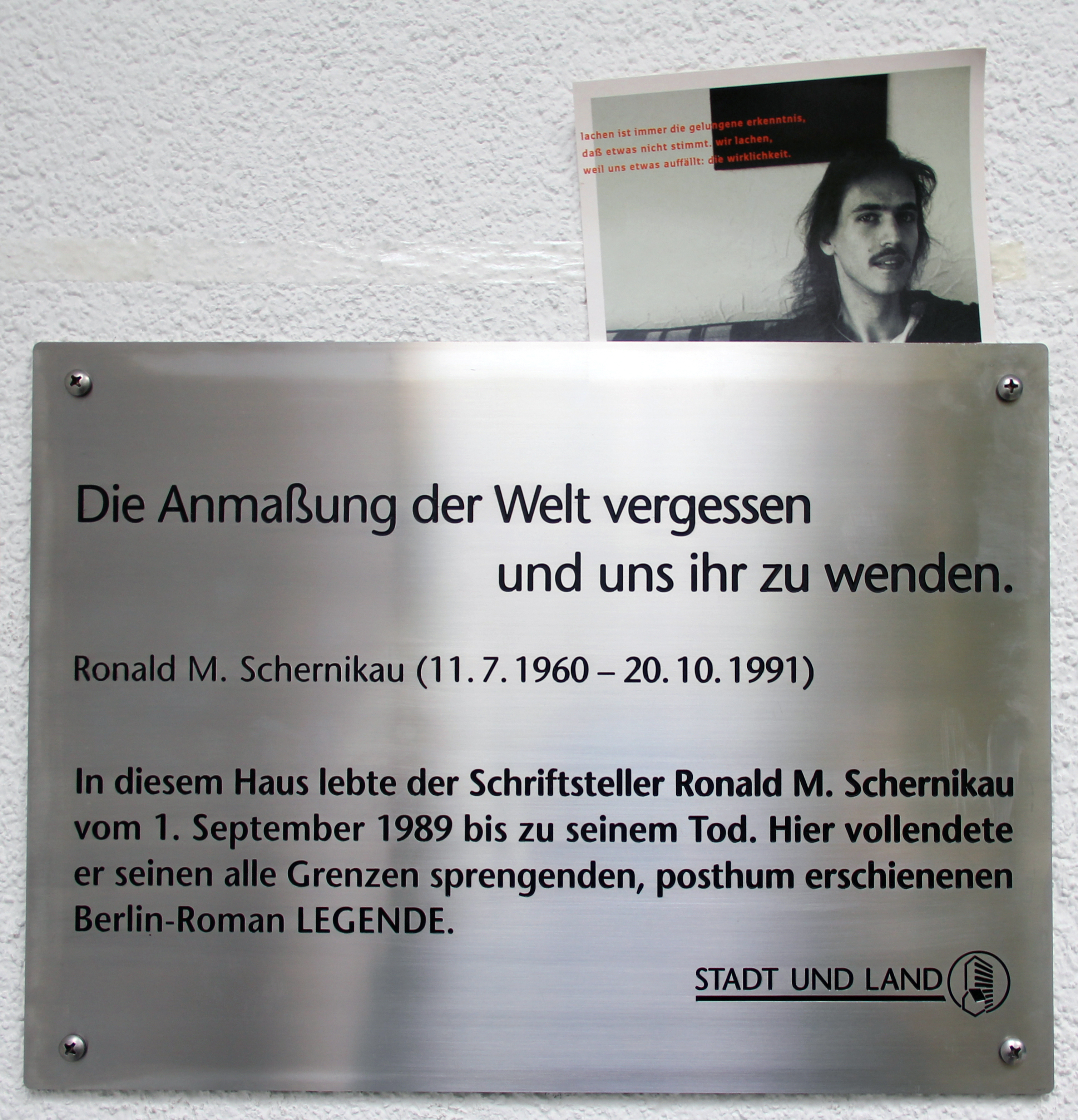 Memorial plaque, Ronald M. Schernikau, Cecilienstraße 241, Berlin-Hellersdorf, Germany